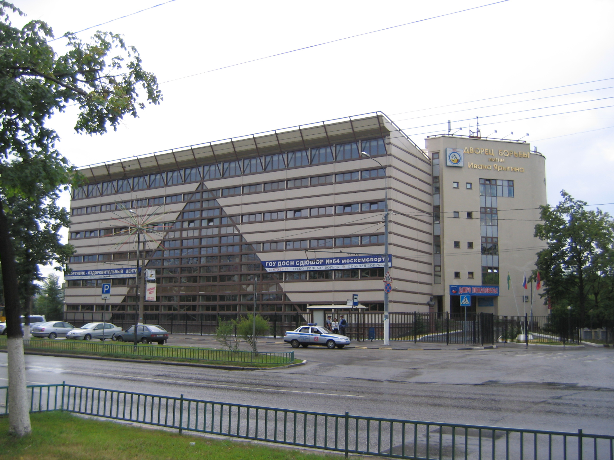 Ivan Yarygin Palace of Wrestling (Dvorets bor'by imeni Ivana Yarygina), Moscow, Russia